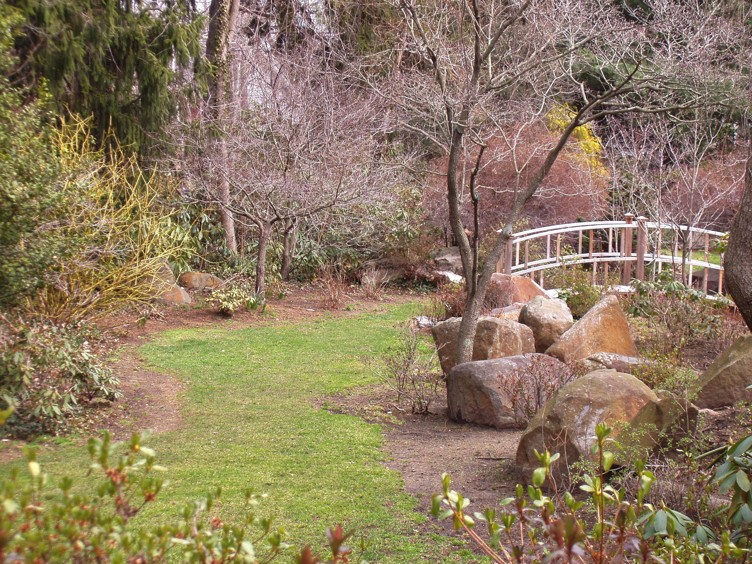 A view of the Sayen Park Botanical Garden, Hamilton Township, New Jersey, USA.